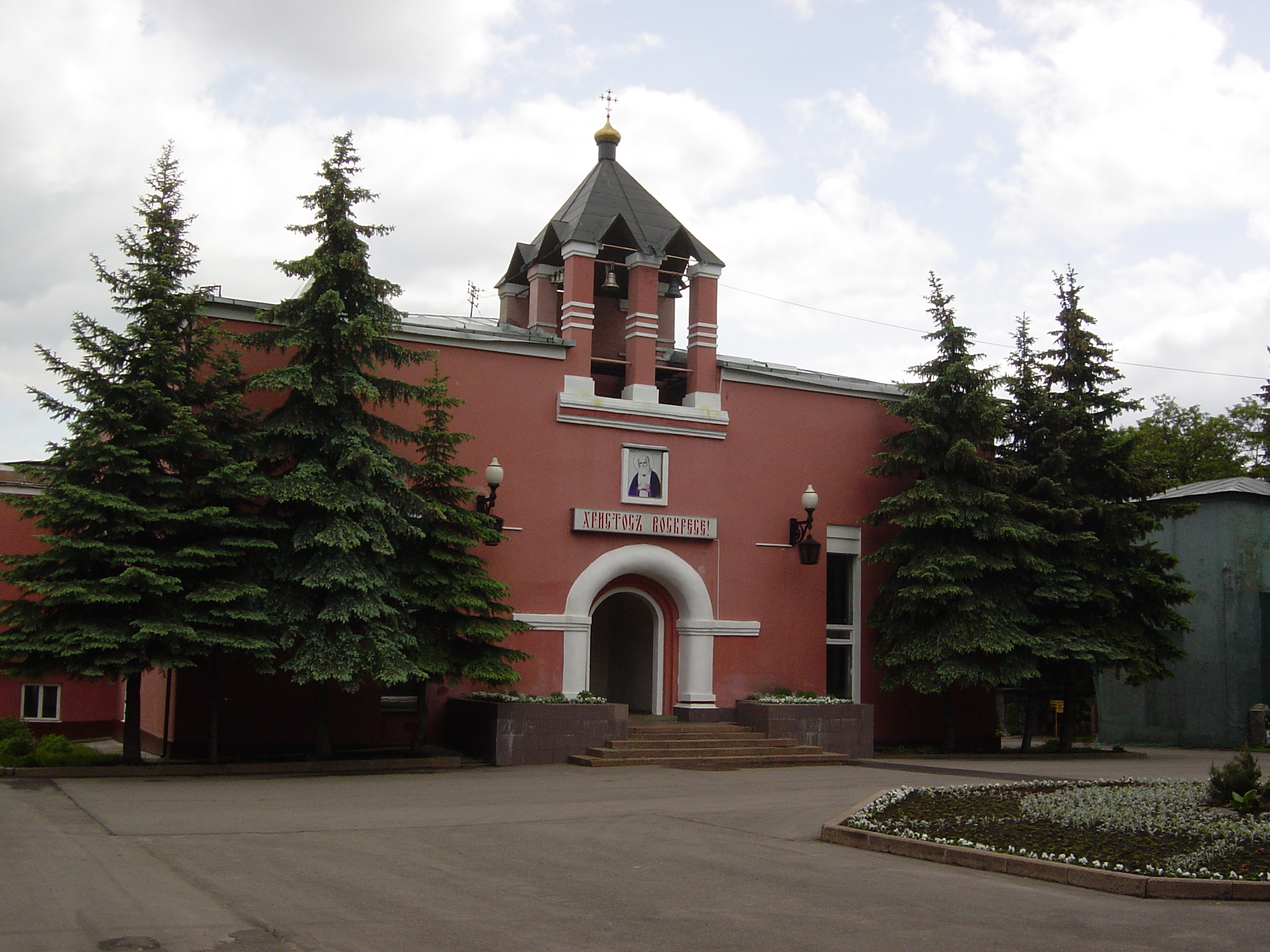 Former 1-st Crematorium of Moscow on Donskoe cemetry, nowadays orthodoxal church